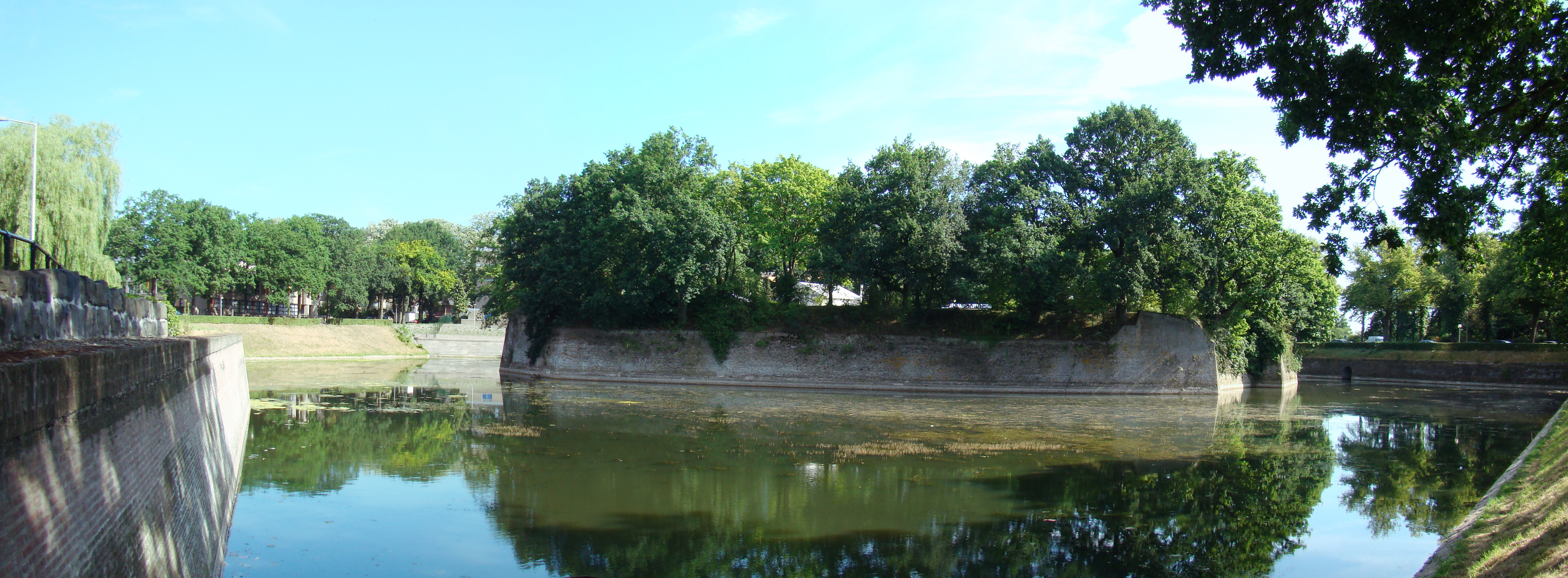 Impressions of Bergen op Zoom, Netherlands